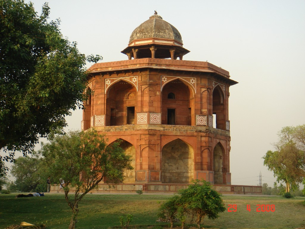 Picture taken by Kaiser Tufail during visit to Delhi, 29-4-08